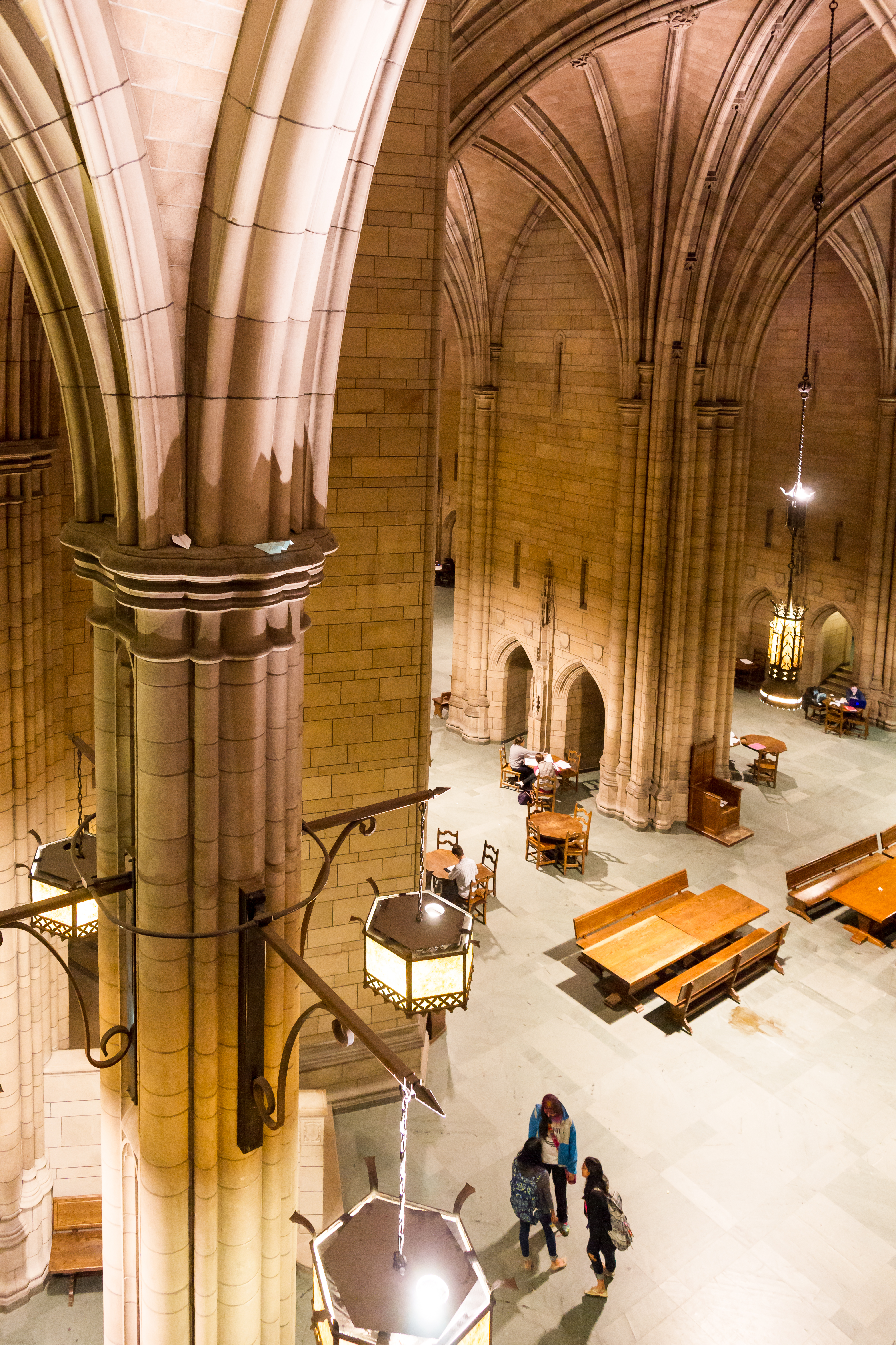 Commons Room of the Cathedral of Learning at the University of Pittsburgh